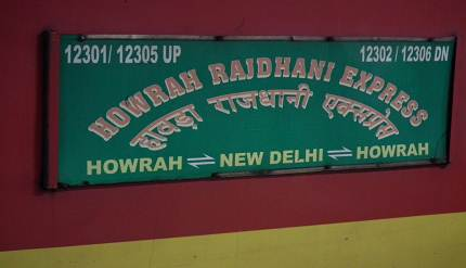 Howrah Rajdhani Express